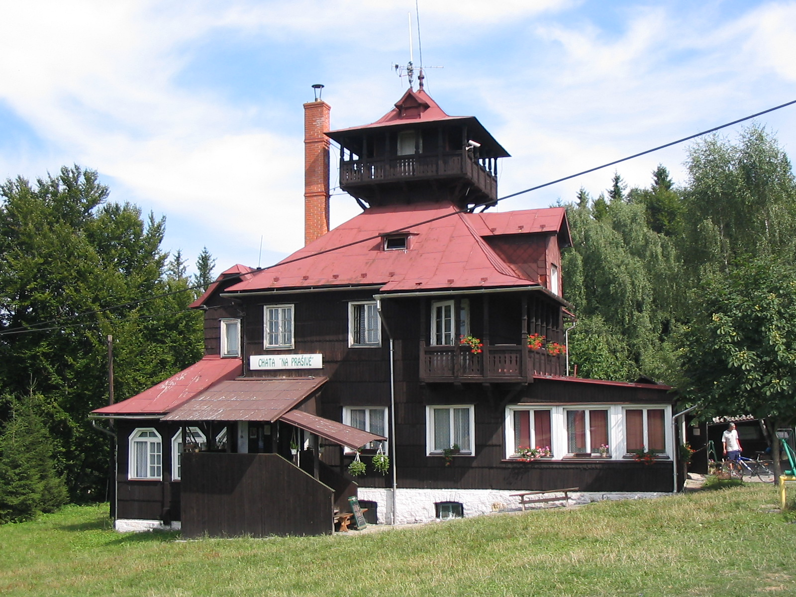 Hut with outlook tower on Mala Prasiva, Czech Republic, August 2006